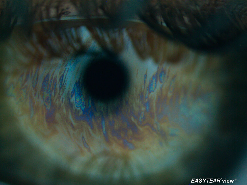 Pattern lipidico 3